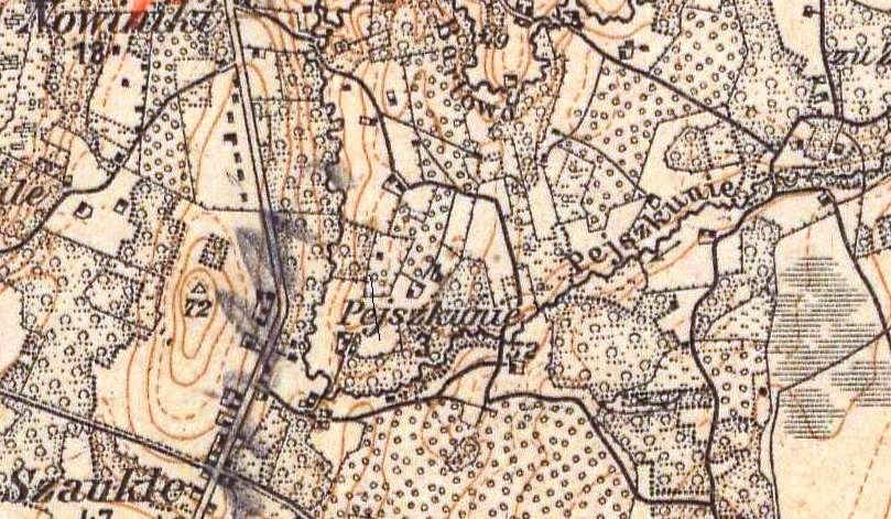 (Paeiškūnė, 1921)